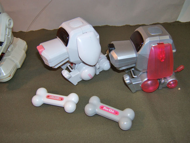 102 Dalmatians "Oddball" and Grey/Pink Poo-Chis.